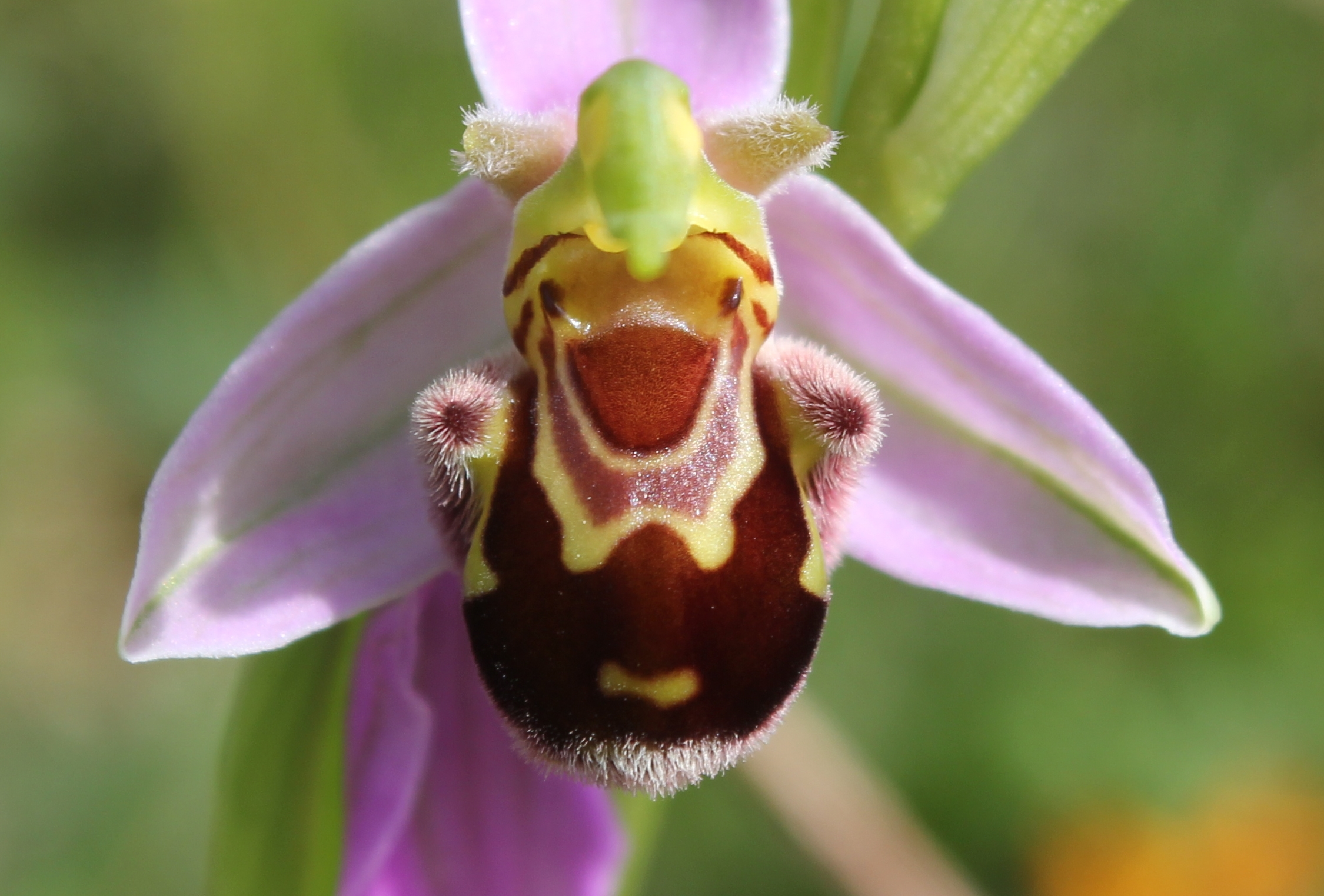 Ophrys apifera lobes